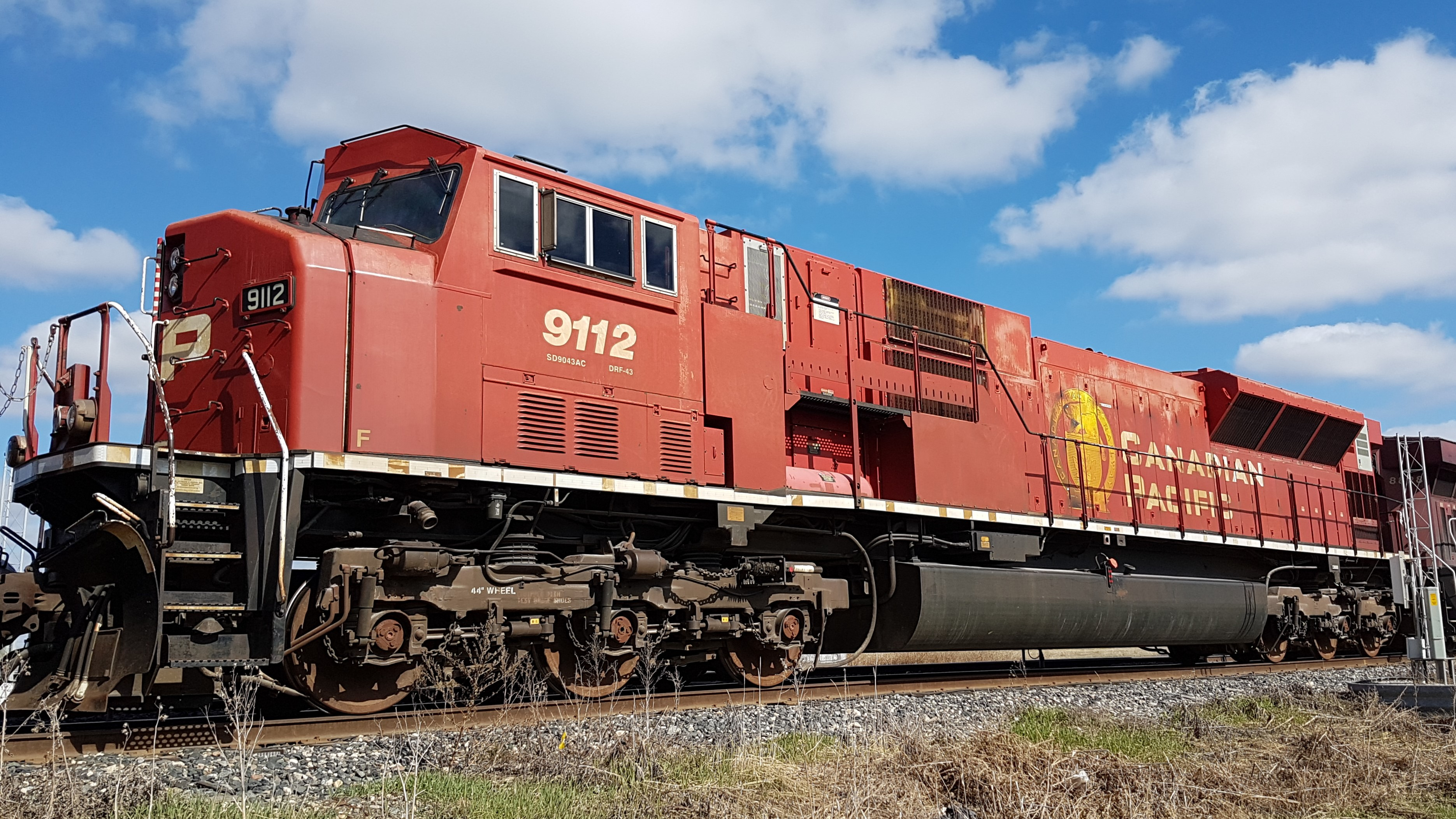 Canadian Pacific 9112, an EMD SD90MAC being sent south on the CP Emerson Subdivison, to be rebuilt to an SD70ACU.